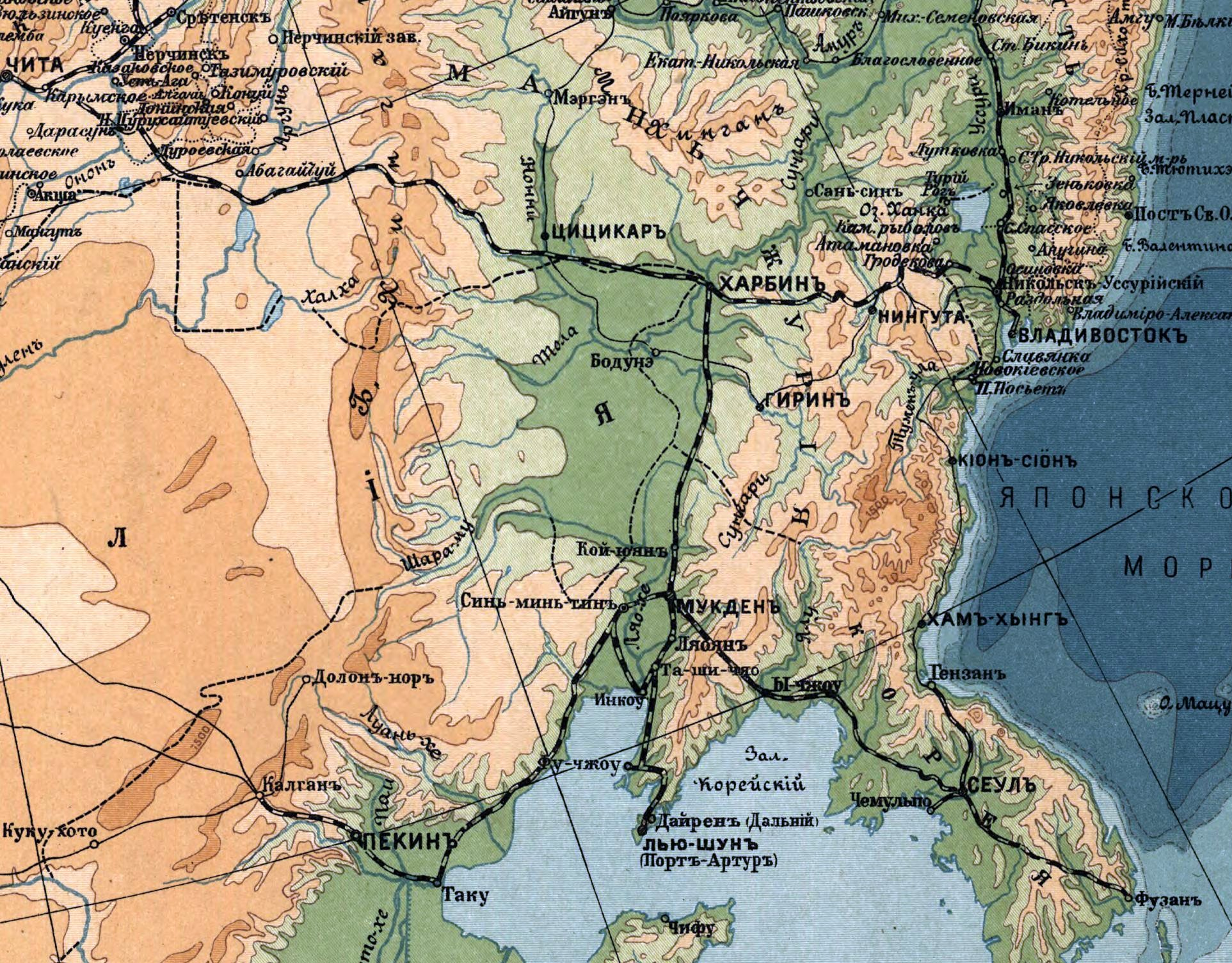 Gipsomietričieskaja karta Rossījskoj Impierīi : (opyt izobražienīja riel'iefa Impierīi) / sostavil JU. M. Šokal'skīj. NOTES Relief and depths shown by gradient tints. Also shows railroads. In Russian. Pulkovo (St. Petersburg) meridian. Includes table of extreme high elevations. LC copy torn at edge, taped, inscribed in ink by the author in upper margin: The Congress Library, Washington D.C., from J. de Schokalsky in remembrance of 2 visits--1912. Scale 1:12,600,000.